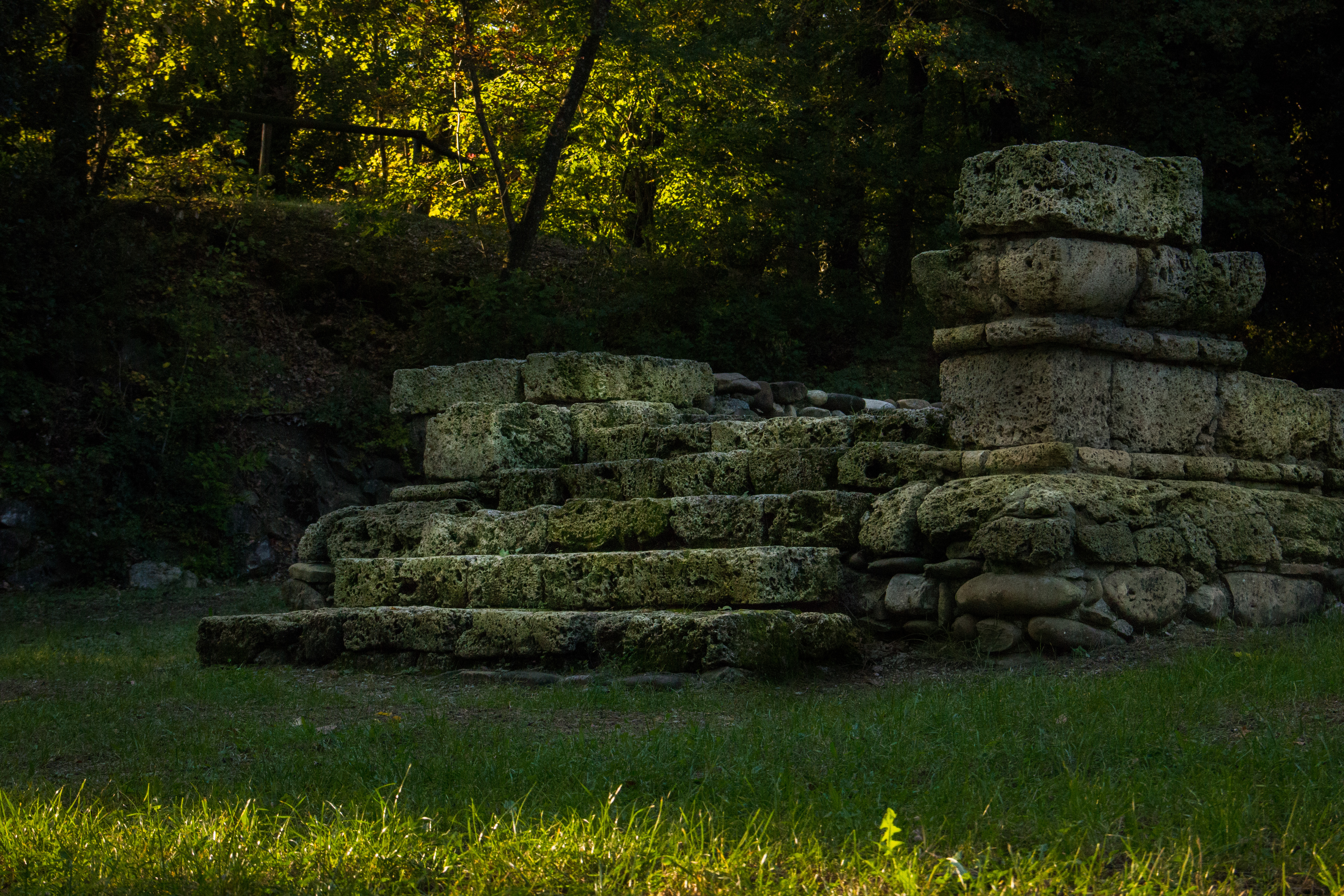 Stairs of the etruscan temple in the acropolis after the sunset. This is a photo of a monument which is part of cultural heritage of Italy.